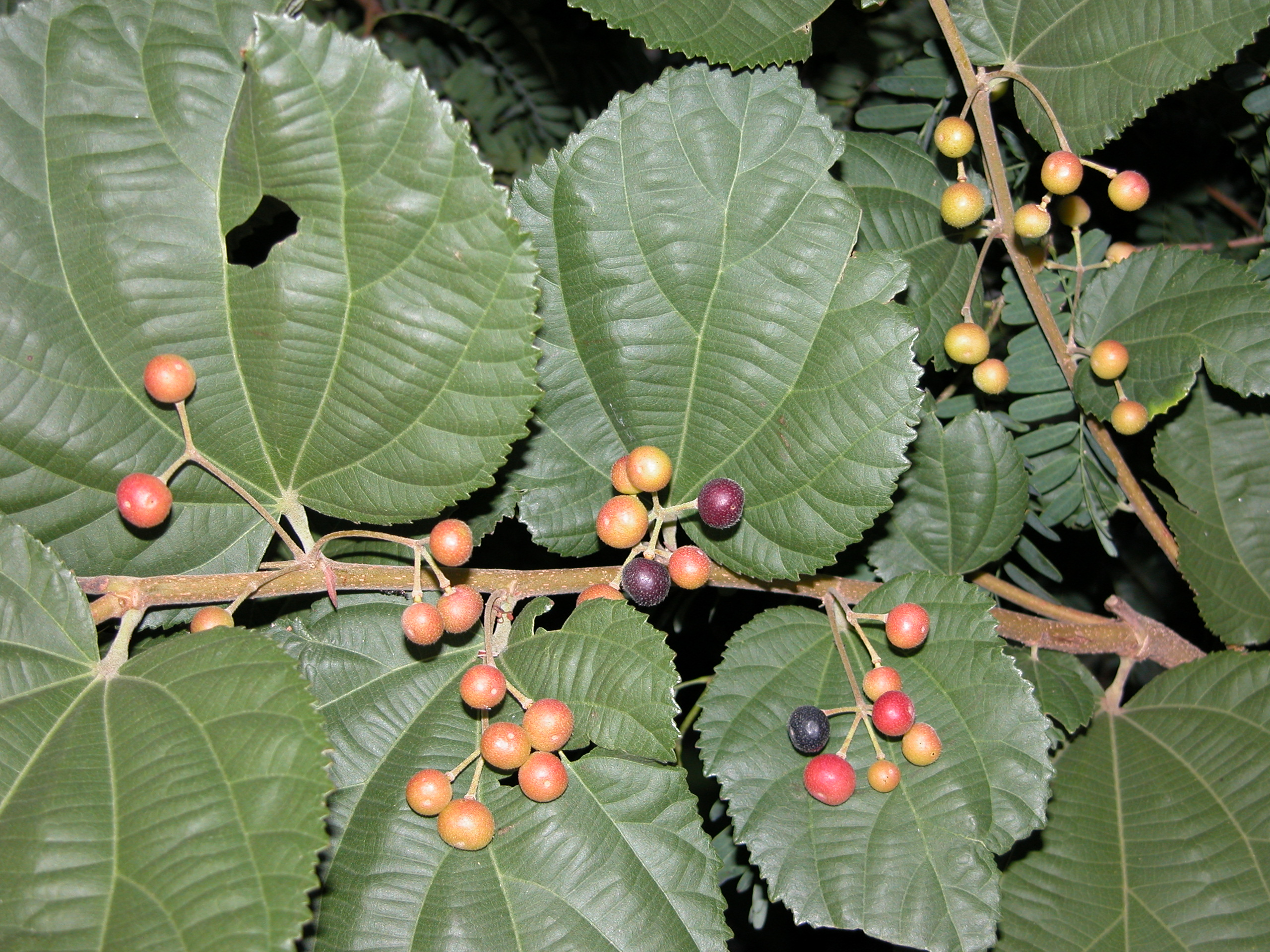 The Phalsa tree (Grewia asiatica / Tiliaceae) is located in the Ghosh Grove, Rockledge, Florida.